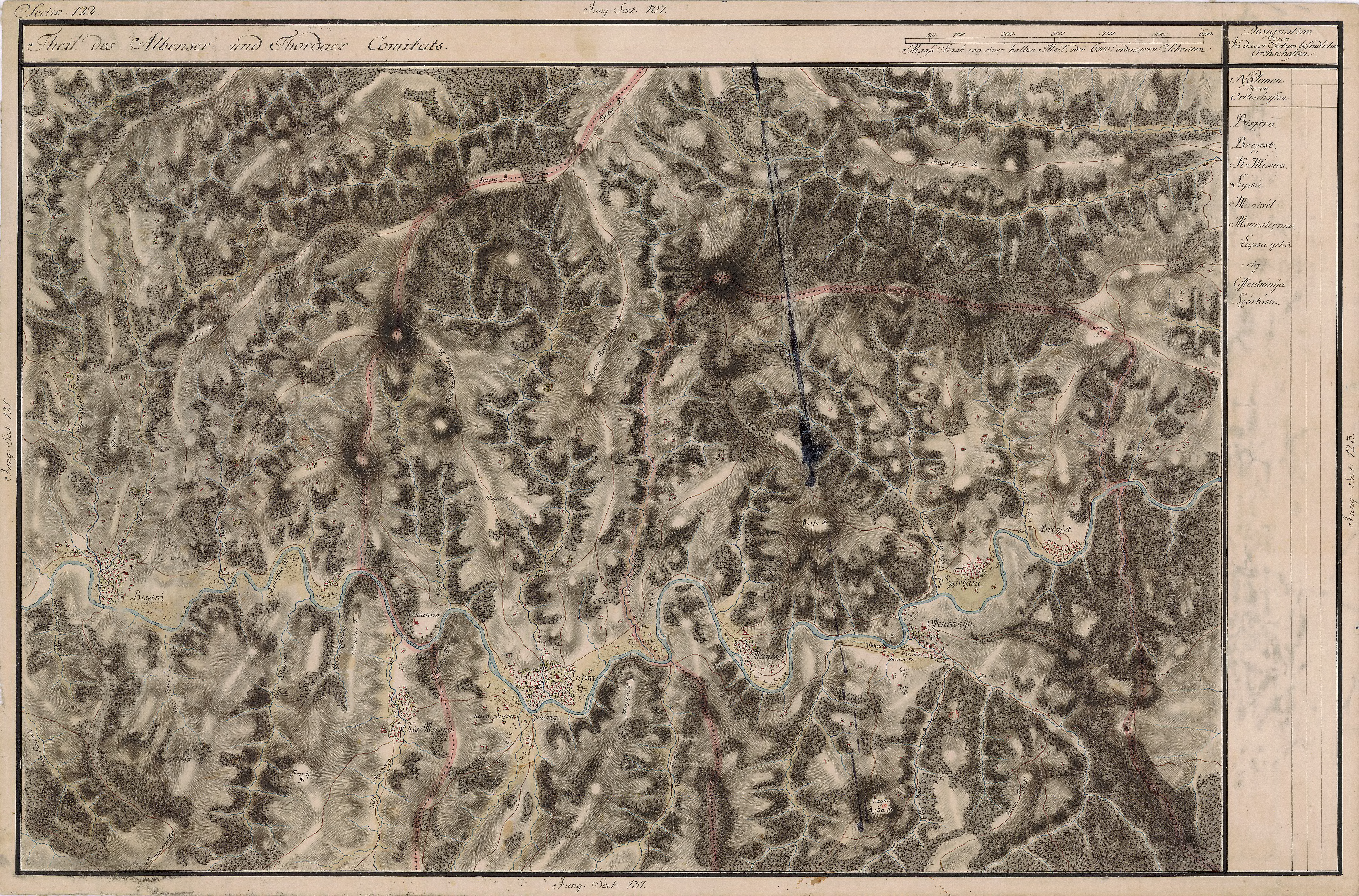 Grand Duchy of Transylvania, 1769-1773. Josephinische Landaufnahme pg.122